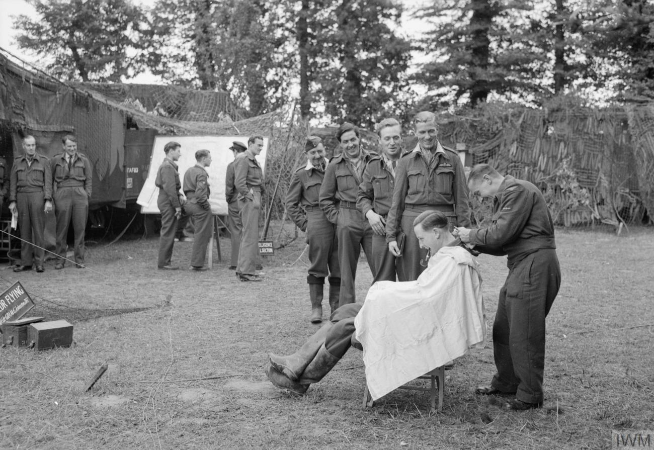 Royal Air Force- 2nd Tactical Air Force, 1943-1945. Pilots line up for a haircut while waiting on standby near the No. 122 Wing Operations Room at B7/Martragny, Normandy. In the chair is Flying Officer J M W Lloyd of No. 65 Squadron RAF: the barber is Leading Aircraftman William Heasman from Brighton.